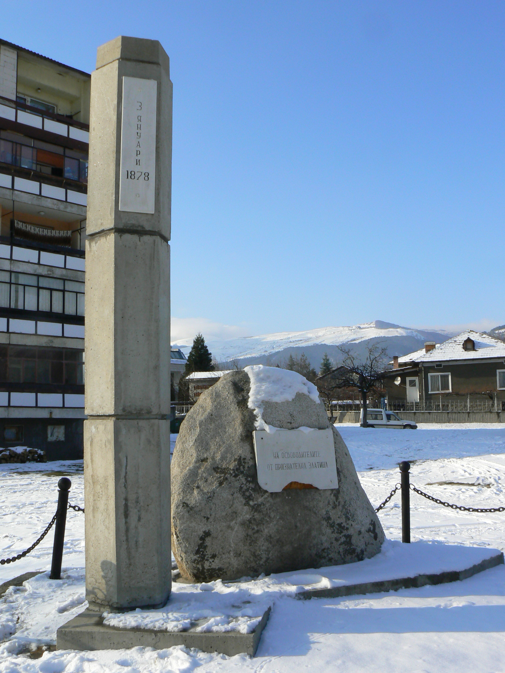 Liberation monument in Zlatitsa, Bulgaria